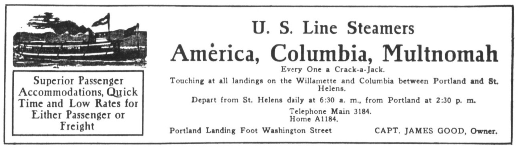 Advertisement for steamers of the U.S. Line, running on the Willamette and Columbia Rivers, ad placed September 8, 1907.